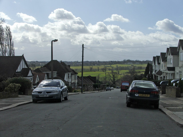 Oak Avenue, Enfield, looking towards Hadley Road Oak Avenue looking southwards towards farmland.